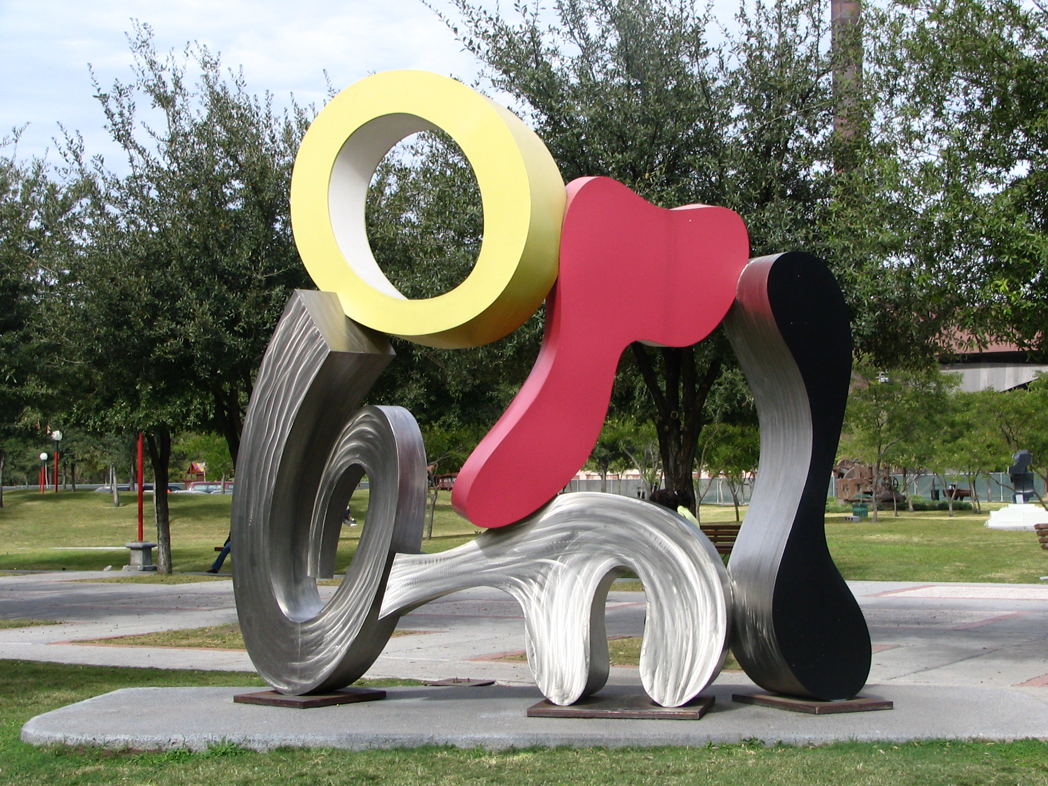 "Atlas Melody" sculpture of the American artist Brad Howe placed in Fundidora Park Monterrey, Mexico.